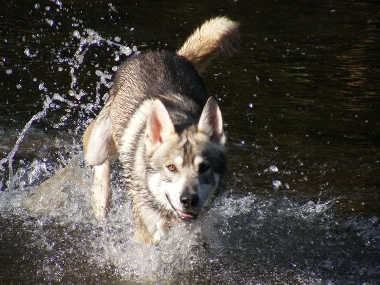 British Utonagan